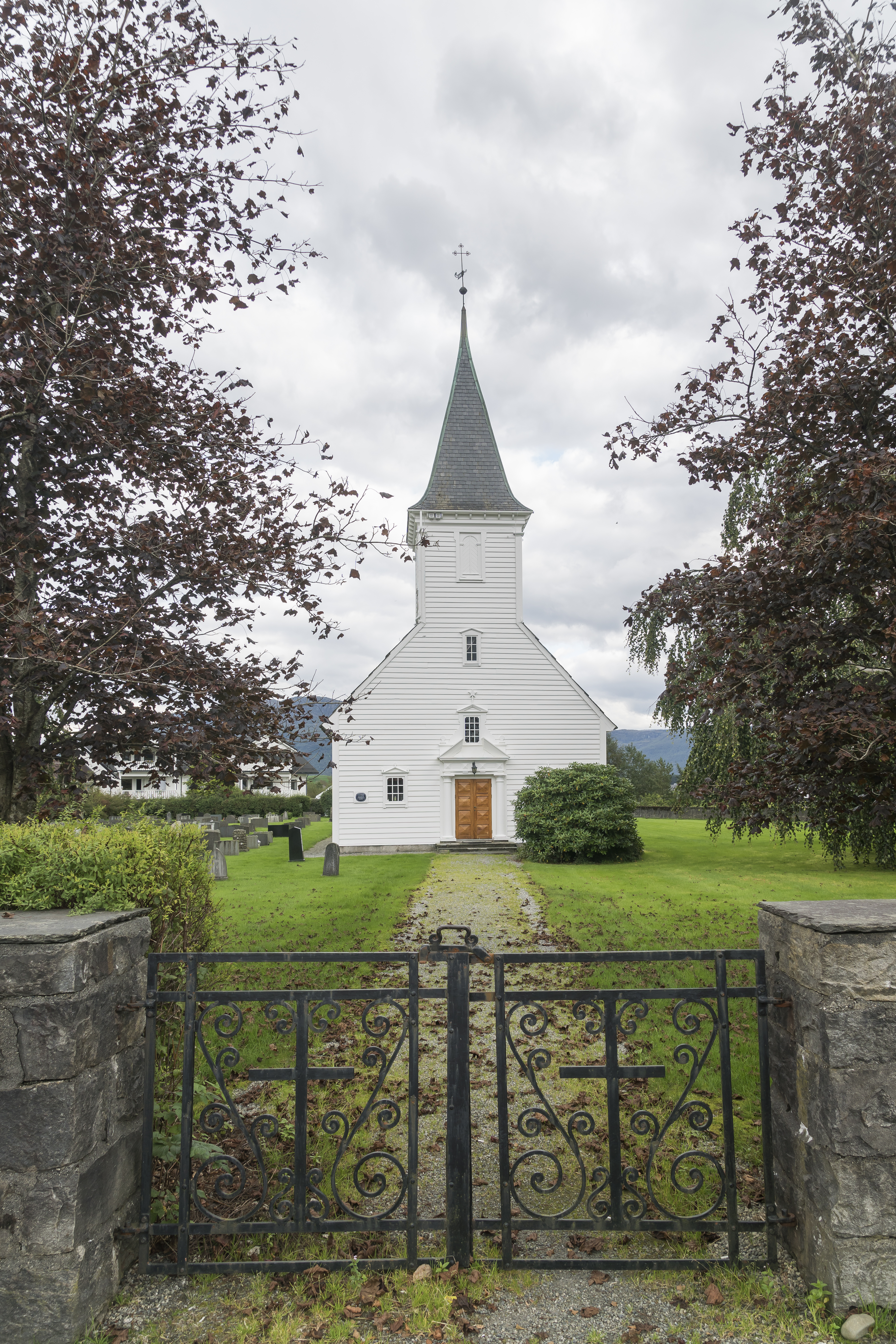 Gjerde church in Etne, Hordaland, Norway.